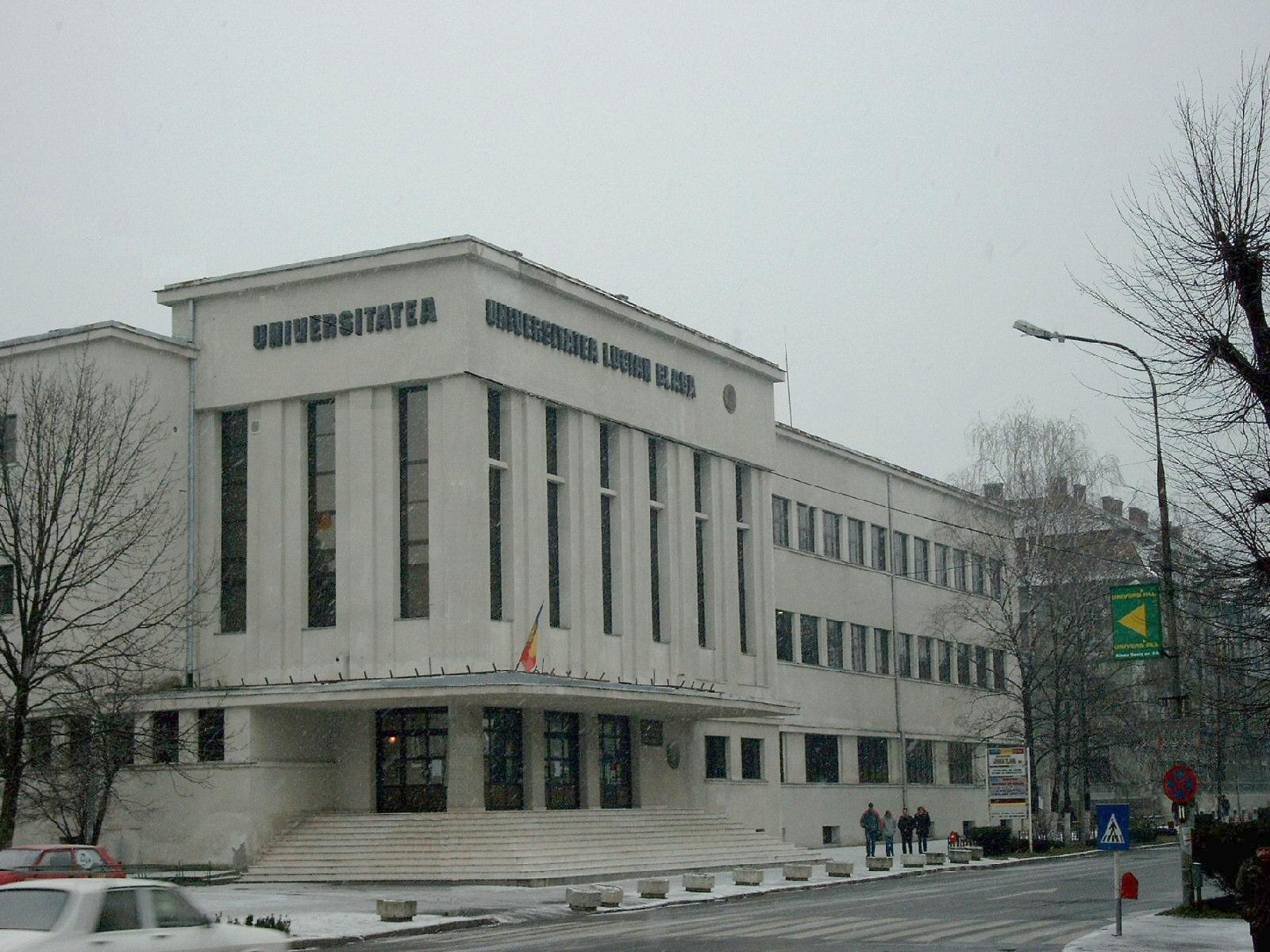 Faculty of Letters and Arts - "Lucian Blaga" University of Sibiu (RO).